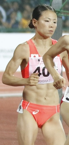 2017 Asian Athletics Championships at the Kalinga Stadium in Bhubaneswar, India